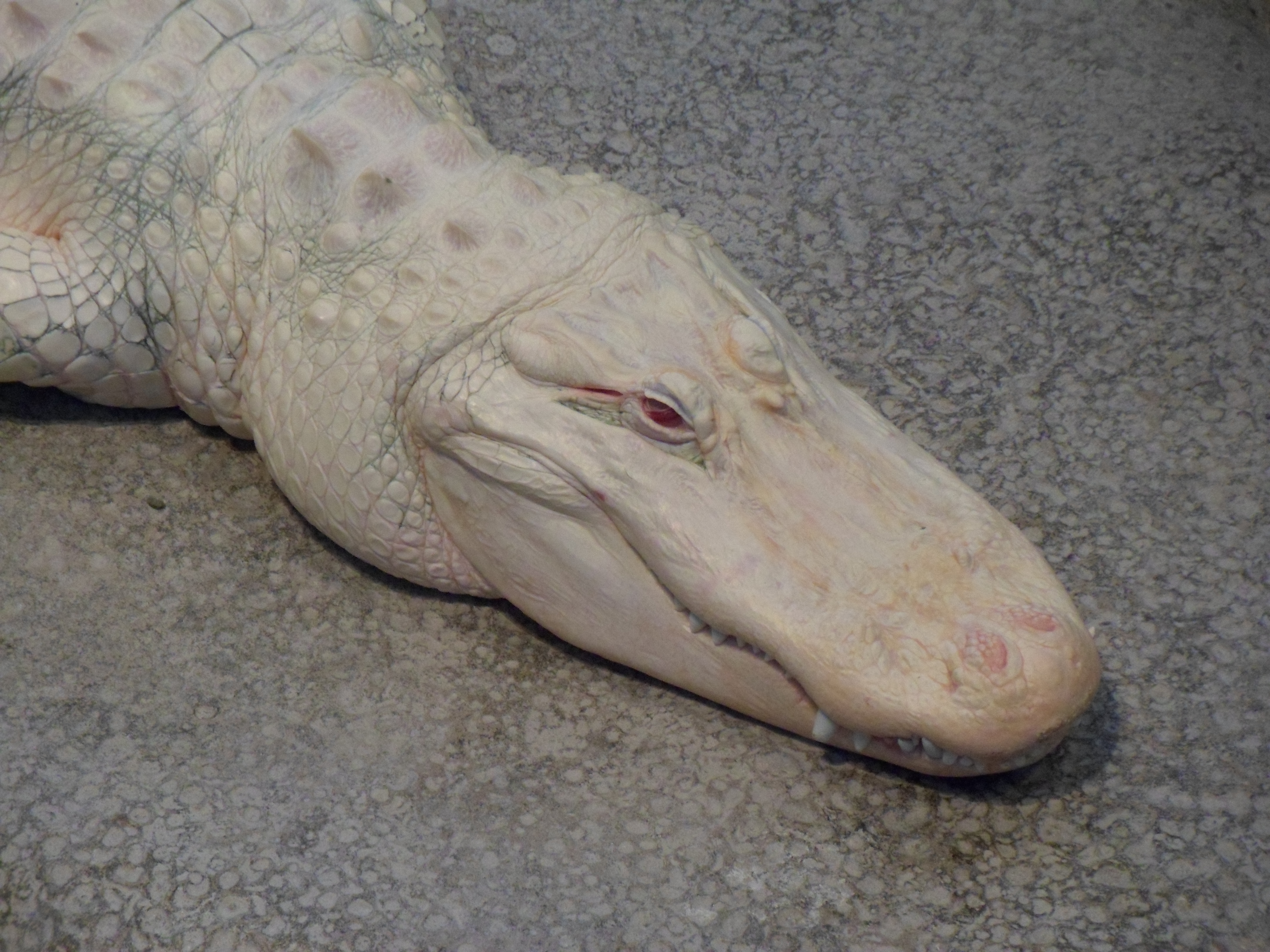 Albino American Alligator, Alligator mississippiensis at the California Academy of Sciences